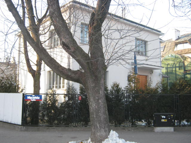 The building of the Estonian embassy in Warsaw, Karwińska 1 Street.